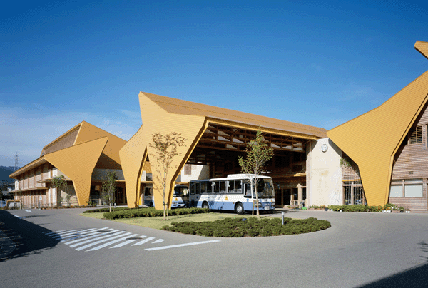 Inariyama